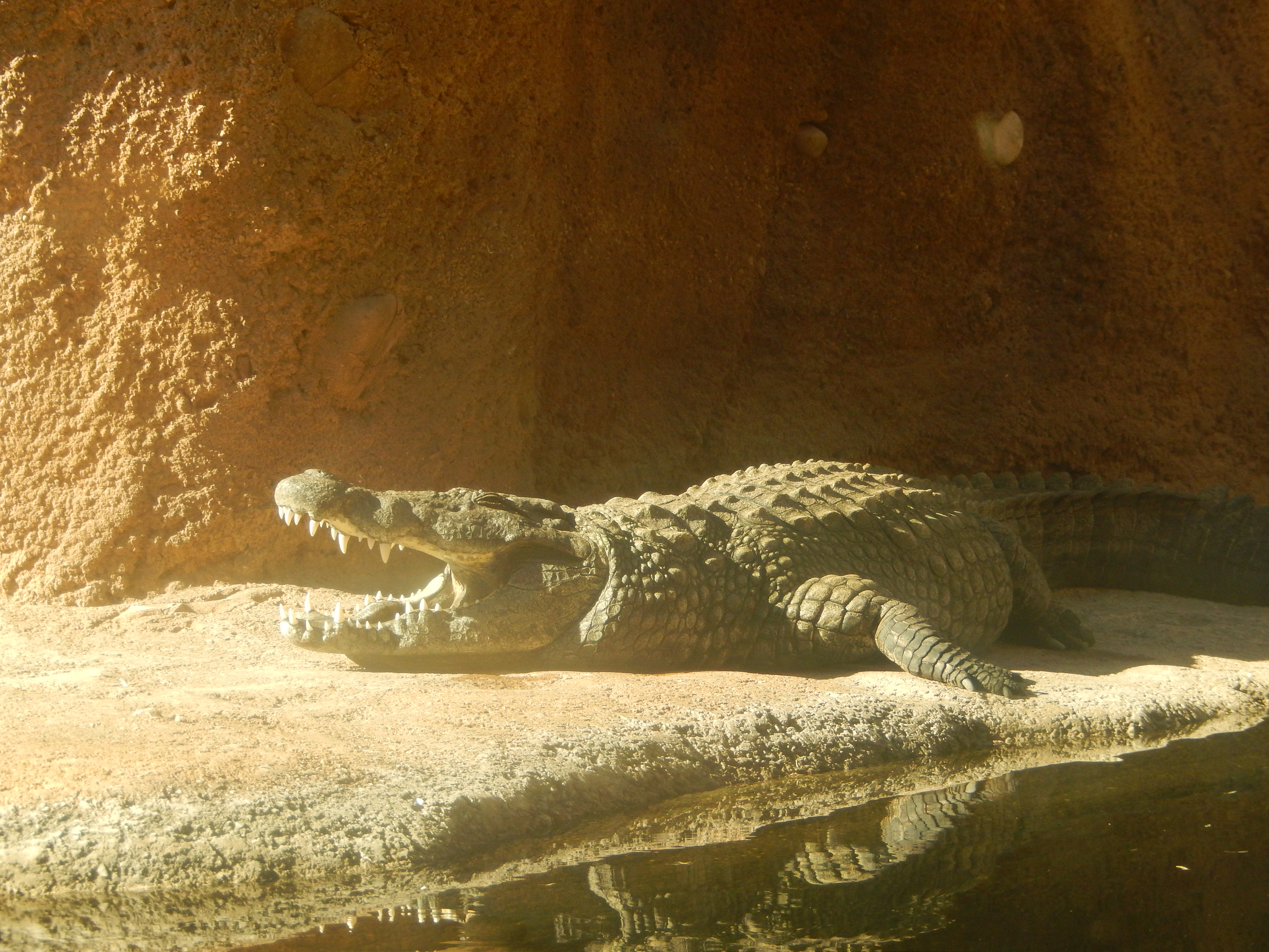 I took photo of crocodile at San Antonio Zoo with Nikon camera.